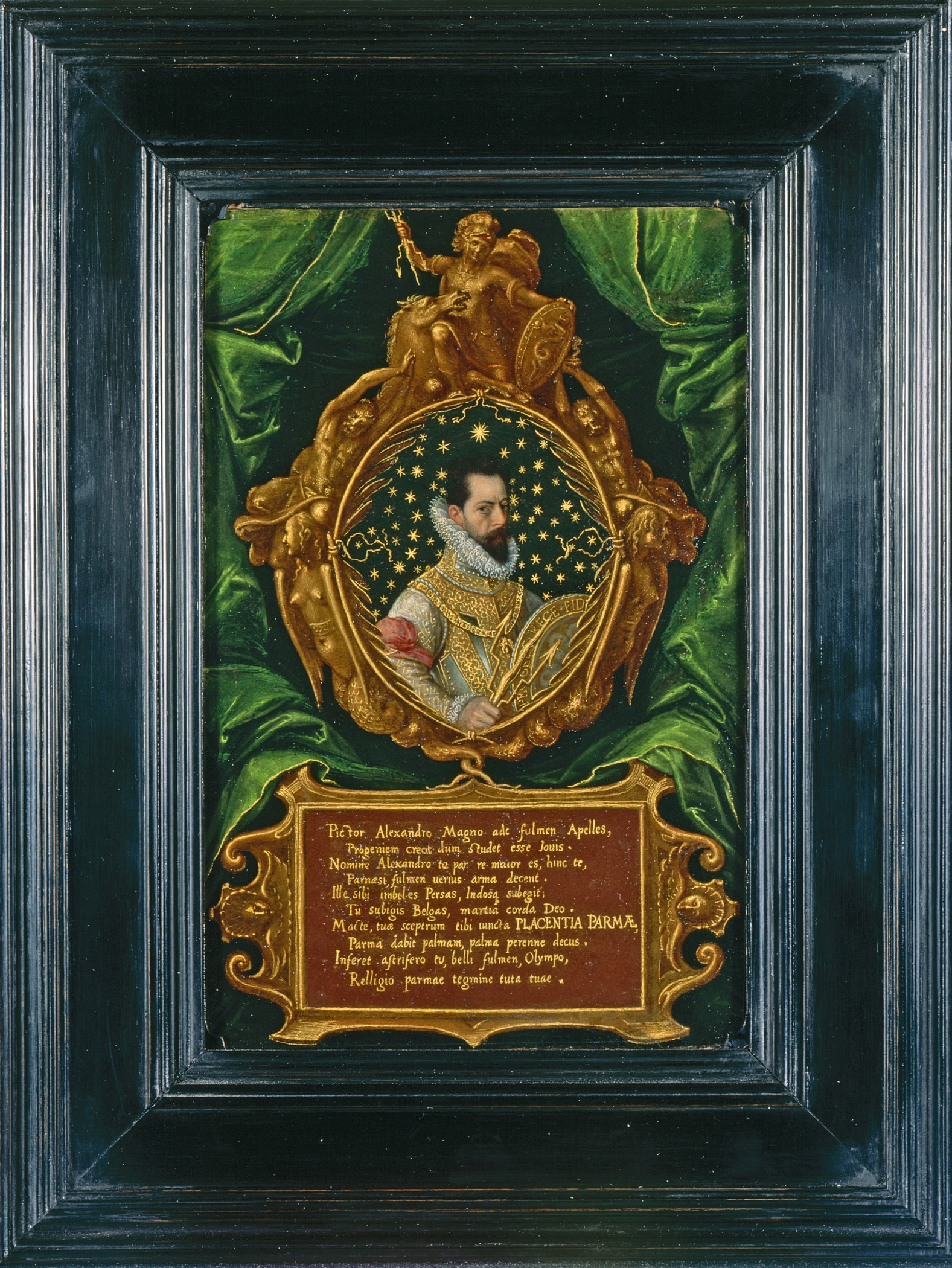 Flanders, circa 1585 Paintings Oil heightened with gold on copper Purchased with funds provided by the Art Museum Council Fund, anonymous donors, The Broad Art Foundation, Marilyn and Calvin Gross, Alice and Nahum Lainer, Lenore and Richard Wayne, Suzanne and David Booth, Ann Colgin and Joseph H. Wender, Marc and Eva Stern Foundation, Christopher V. Walker, Myron Laskin, Barbara Guggenheim and Virginia and William M. Carpenter through the 2003 Collectors Committee (M.2003.69) European Painting Currently on public view: Ahmanson Building, floor 3